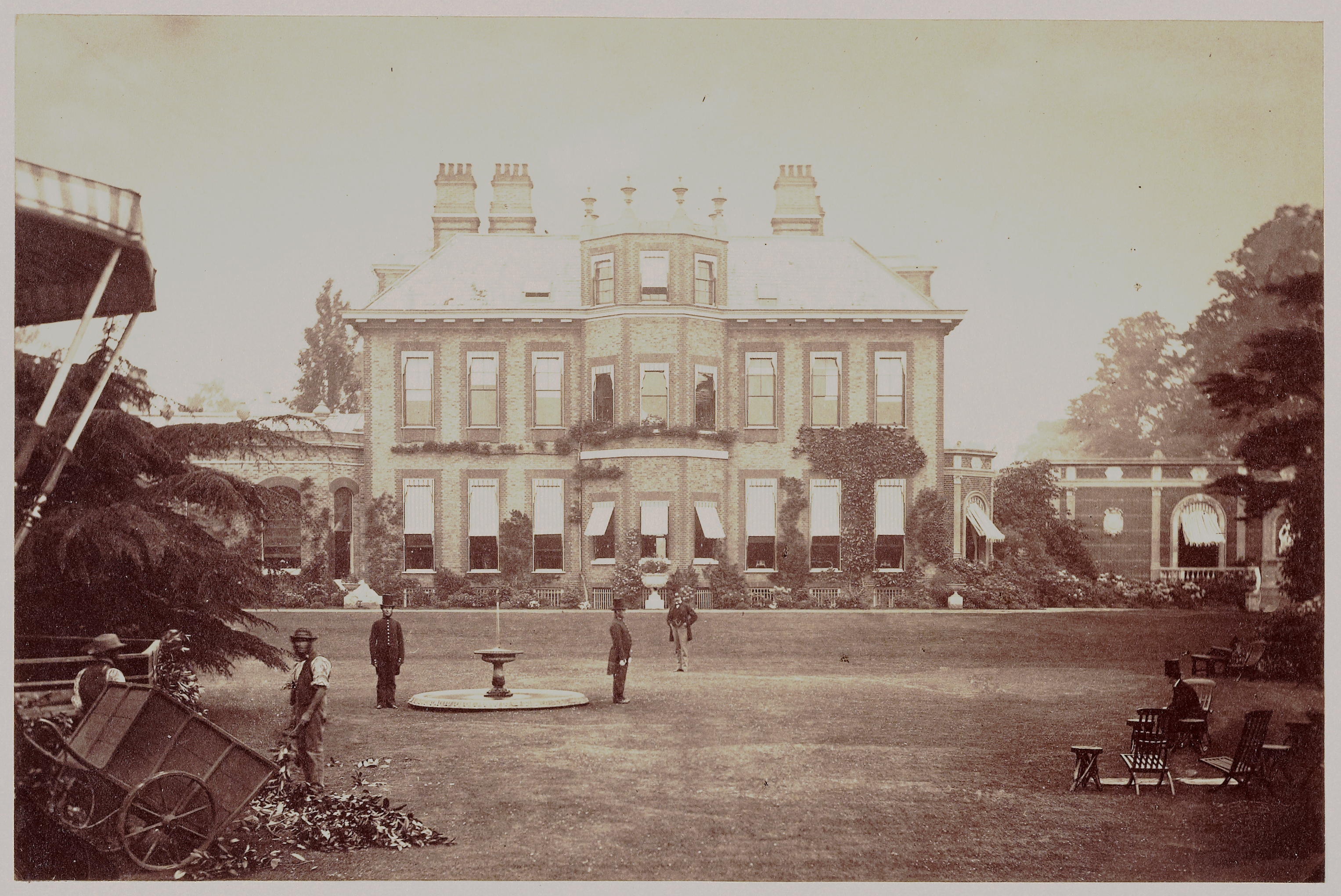 Camille Silvy (French, 1834 - 1910).- General View of Orleans House, England (Place created), Albumen silver print, 1864.